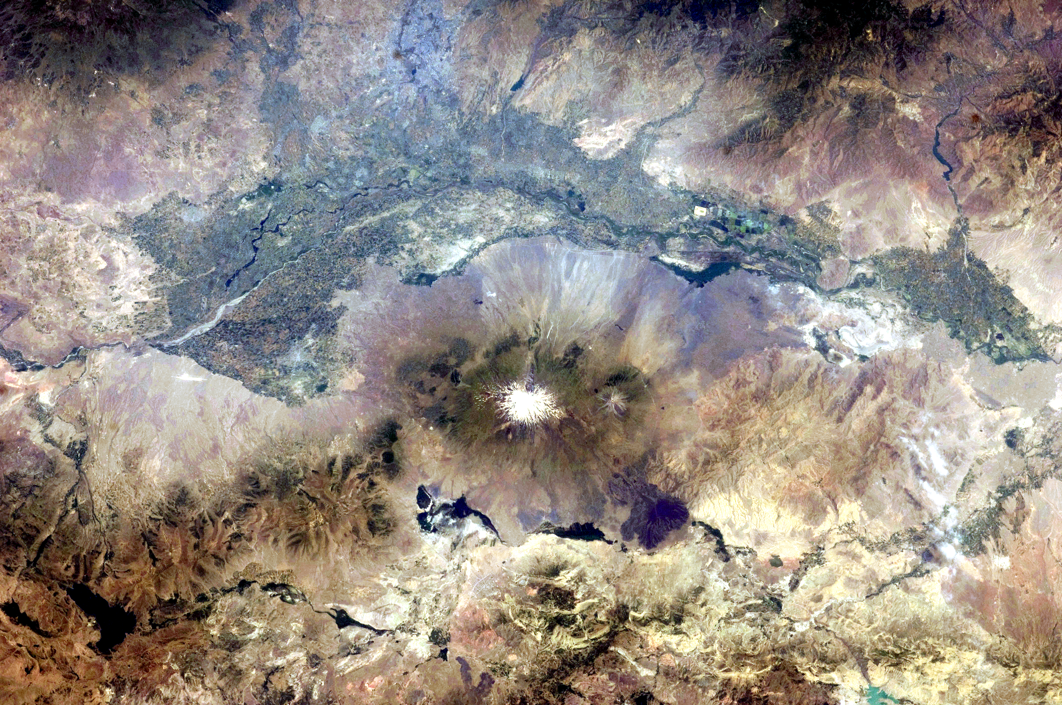 This astronaut photograph, taken from the International Space Station, highlights a segment of the international border between Armenia and Turkey. The Aras River separates the two countries, with Armenia to the north-north-east and Turkey to the south-south-west. Extensive green agricultural fields are common on both sides of the river (upper part of image), as well as a number of gray-to-tan urban areas including Yerevan (image top, slightly left of centre) and Artashat and Armavir in Armenia, and Iğdır in Turkey. While there have been efforts to normalize diplomatic relations between the two countries in recent years, the Armenia-Turkey border remains officially closed. The dominant geographic feature in the region is Mt. Ararat, also known as Agri Dagi. The peak of Ararat, a large stratovolcano that last erupted in 1840 according to historical records, is located approximately 40 kilometres to the south of the Armenia-Turkey border. A lower peak to the east, known as Lesser or Little Ararat, is also volcanic in origin. Dark gray lava flows to the south of Mt. Ararat are located near the Turkish border with Iran. While this border is also closed along much of its length, official crossing points allow relatively easy travel between the two countries. The white, glacier-clad peak of Mt. Ararat is evident at image centre; dark green areas on the lower slopes indicate where vegetation cover is abundant. A large lake, Balik Golu or Fish Lake, is visible to the west (image lower left).